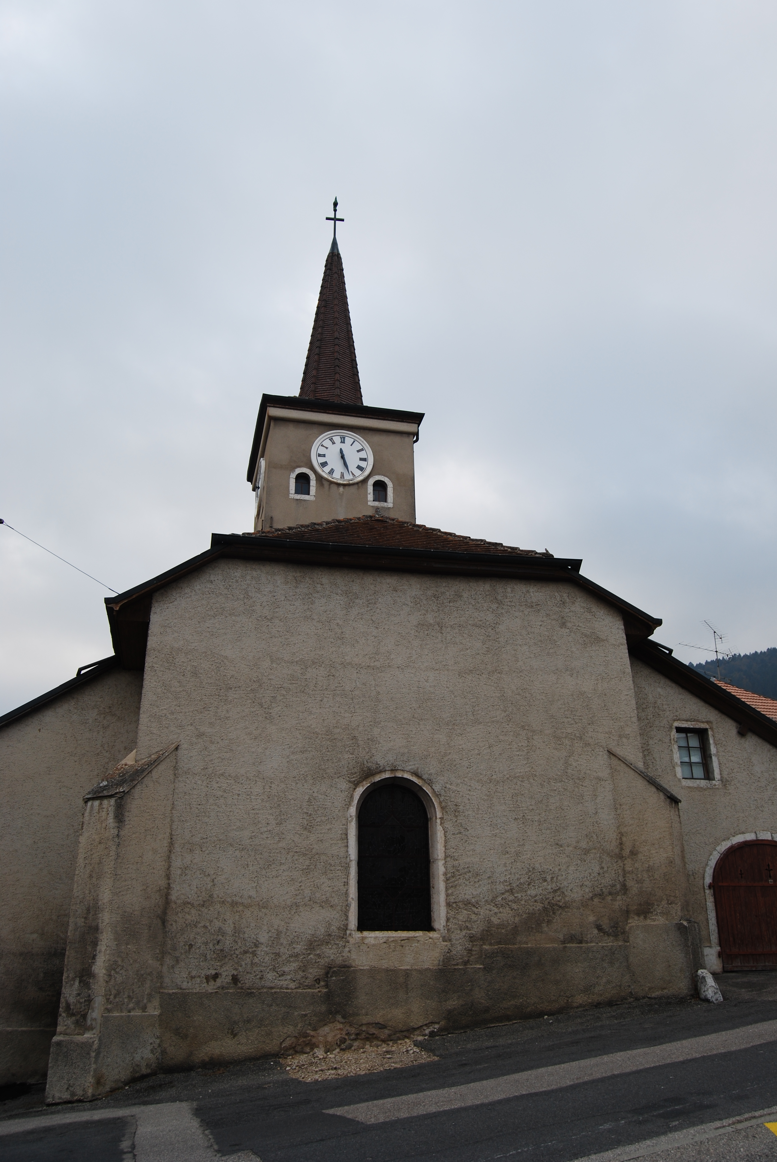 Church of Lignerolle, canton of Vaud, Switzerland